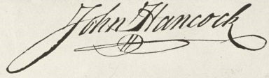 Cropped from Image:Us_declaration_independence.jpg and enhanced slightly by Tim Packer to replace lower-quality image Image:John_Hancock_Signature_DOI.PNG.